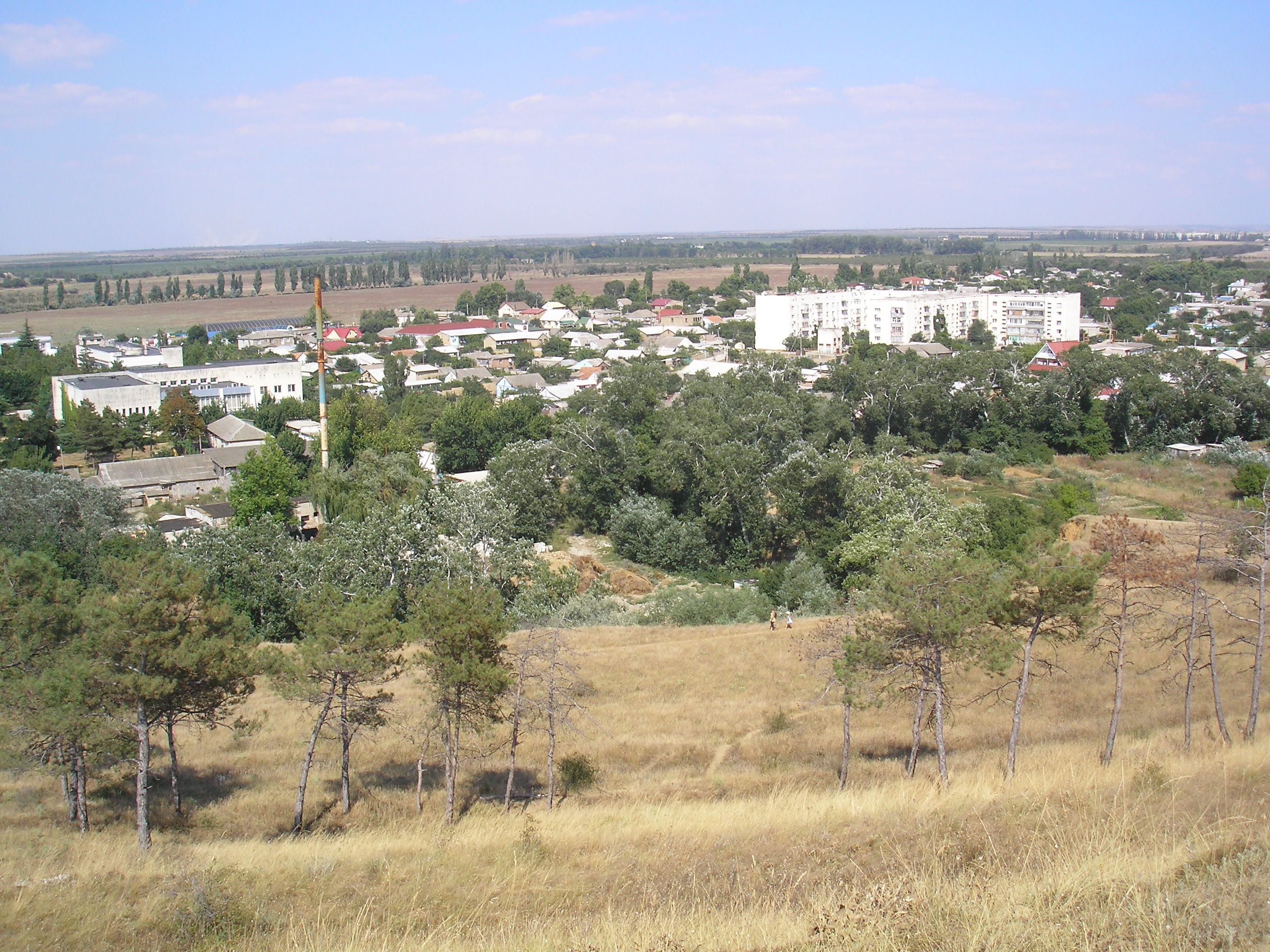 Village Peschanoe, Bakhchisaray district, Crimea